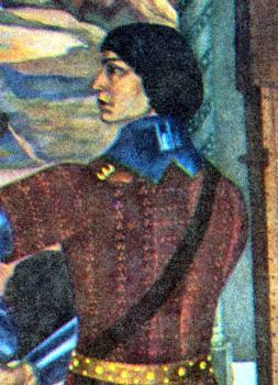 Dan II, prince of Wallachia, opposed by Radu Chelul, reigned two times.